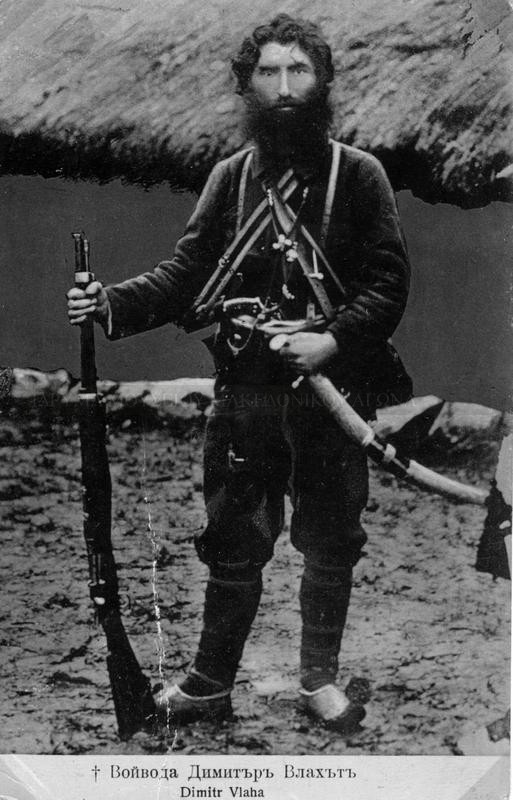 Portrait of Bulgarian revolutionary from IMARO Dimitar Pandzhurov or Mitre Vlaha